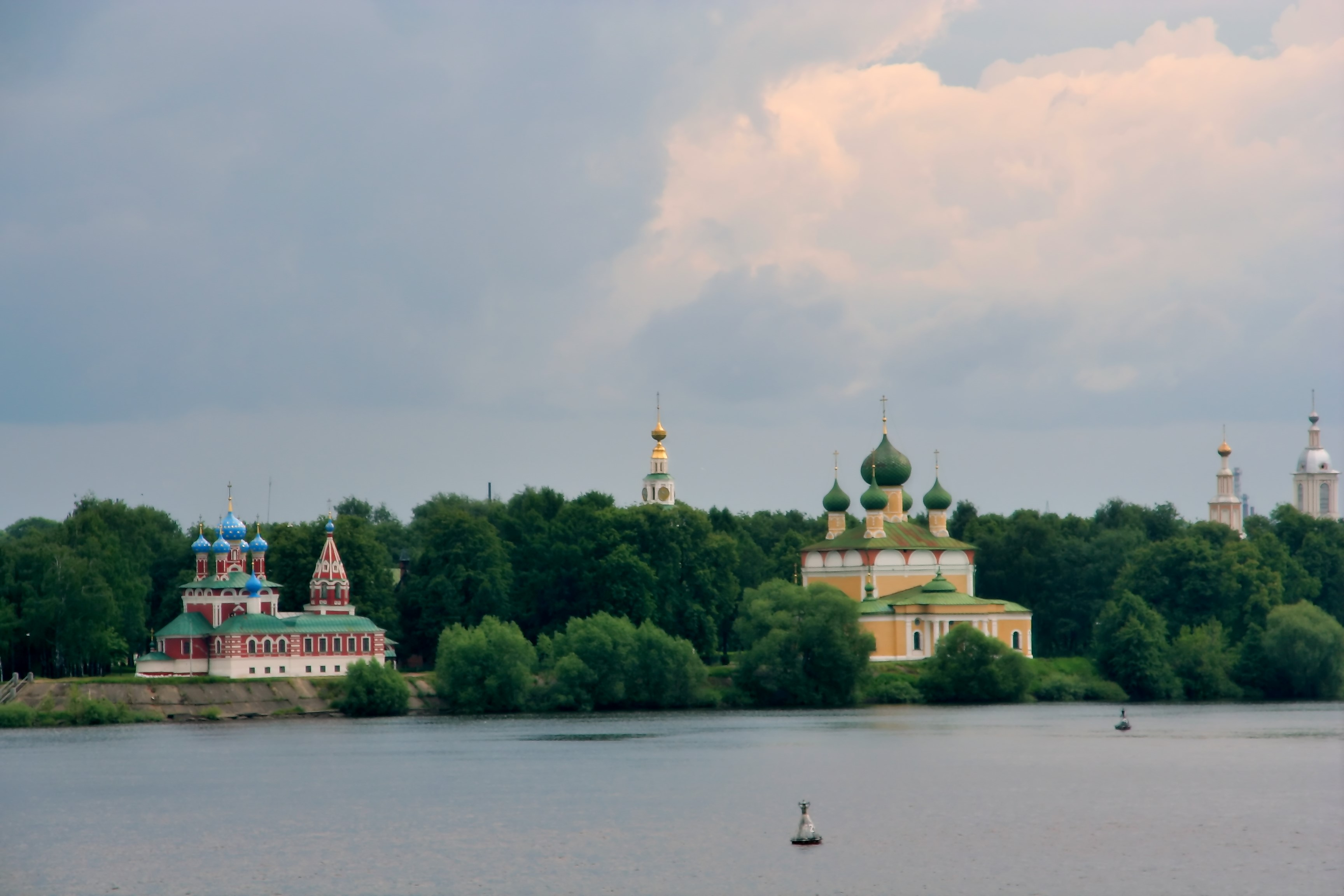 Church of Tsarevitch Dmitrij and cathedral in Uglich